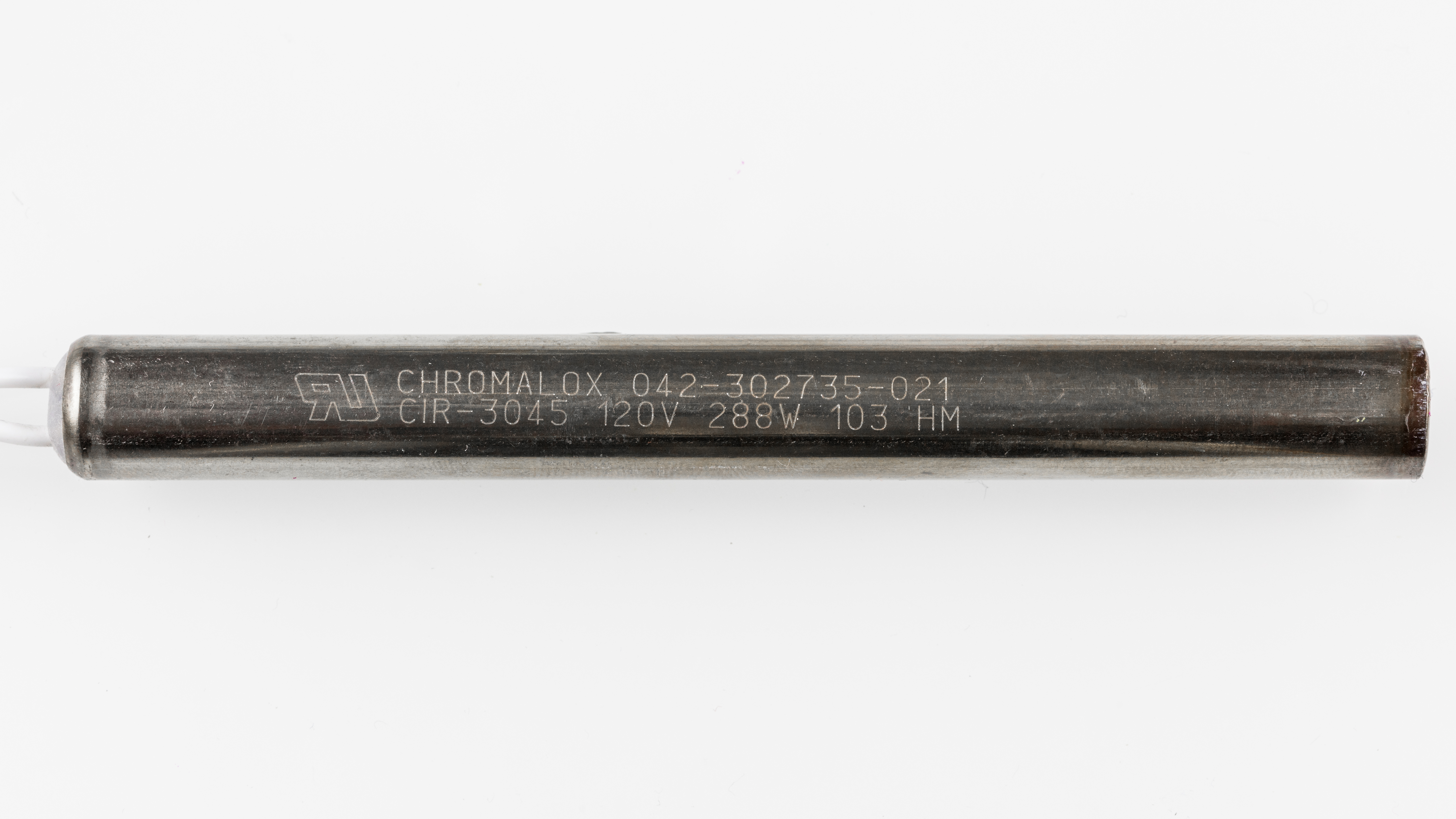 Xerox ColorQube 8570 - print head - cartridge heater Chromalox CIR-3045